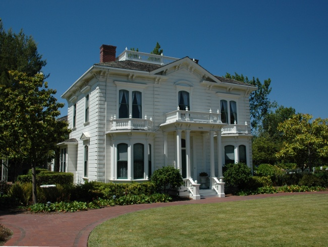 Picture of the Rengstorff House in Shoreline Park, Mountain View, California